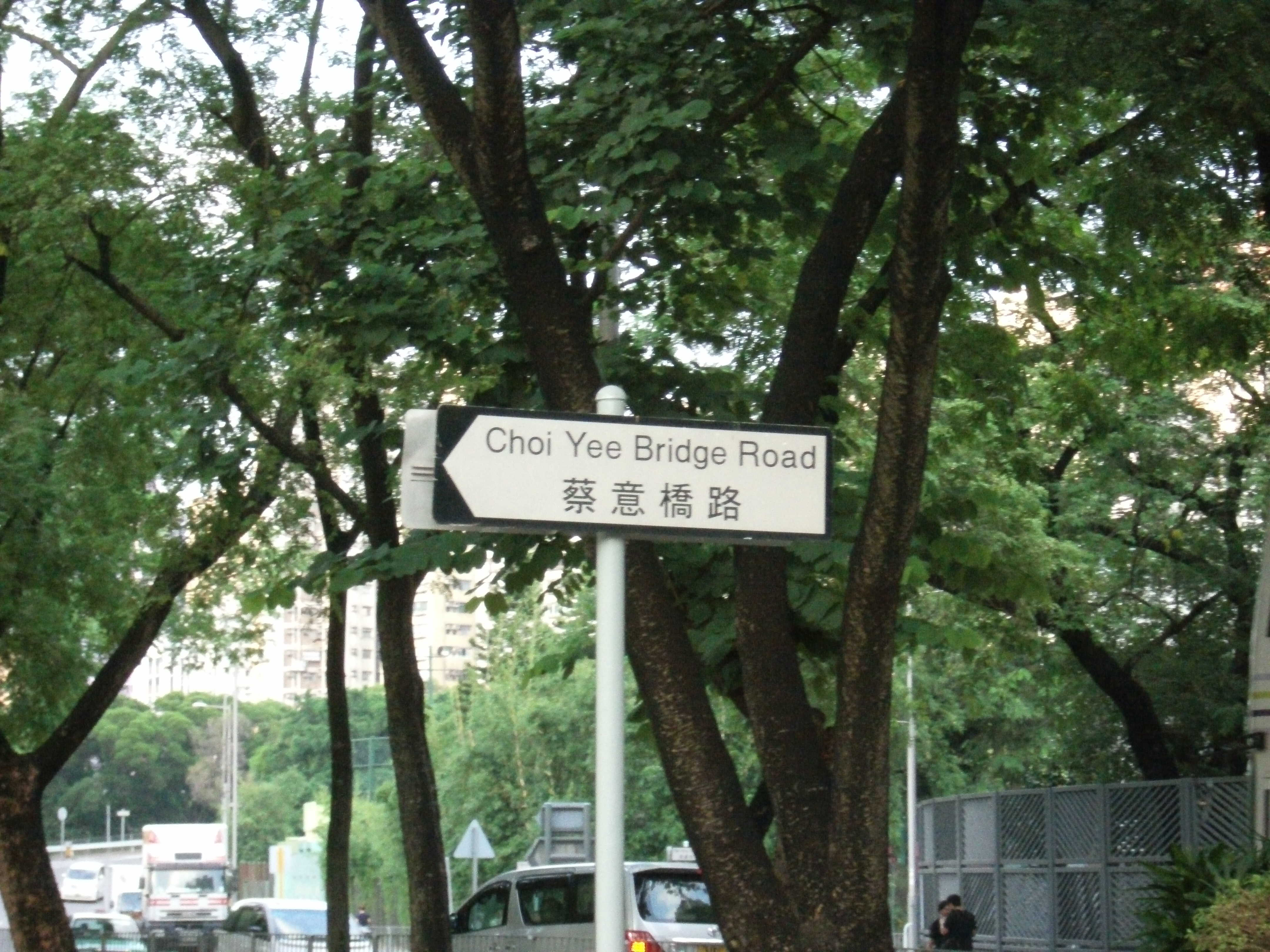 Choiyeebridgeroad